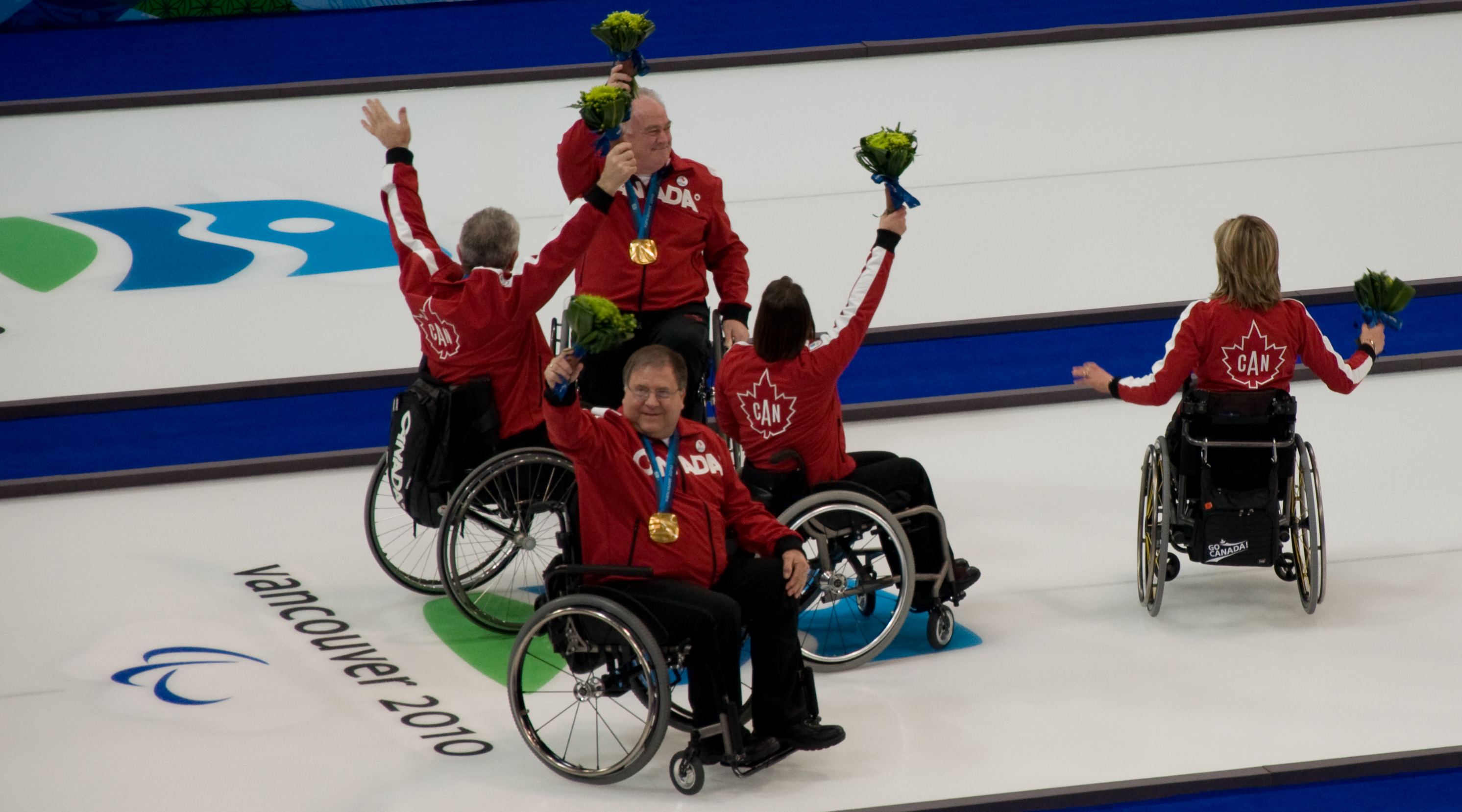 Team Canada with gold medals